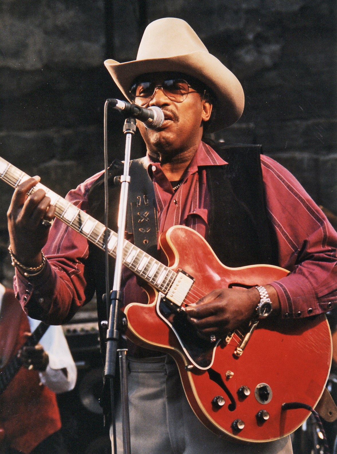 Otis Rush performing at Notodden bluesfestival, Norway, in 1997.